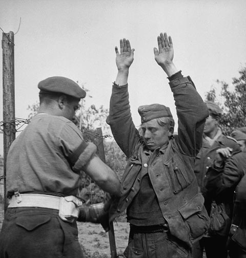 Canadian troops searching German prisoners captured during the early stages of Operation Totalize, Tilly-la-Campagne, France (vicinity) Source: Library and Archives Canada USE/REPRODUCTION: Restrictions on use/reproduction: Nil Copyright: Expired Credit: Harold G. Aikman / Canada. Dept. of National Defence / Library and Archives Canada / PA-162000